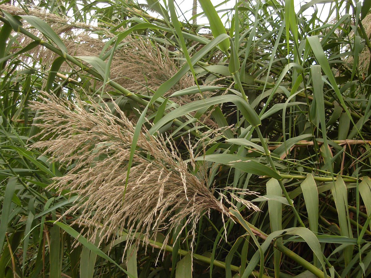 Miscanthus floridulus; (kaho) near a Tongan swamp